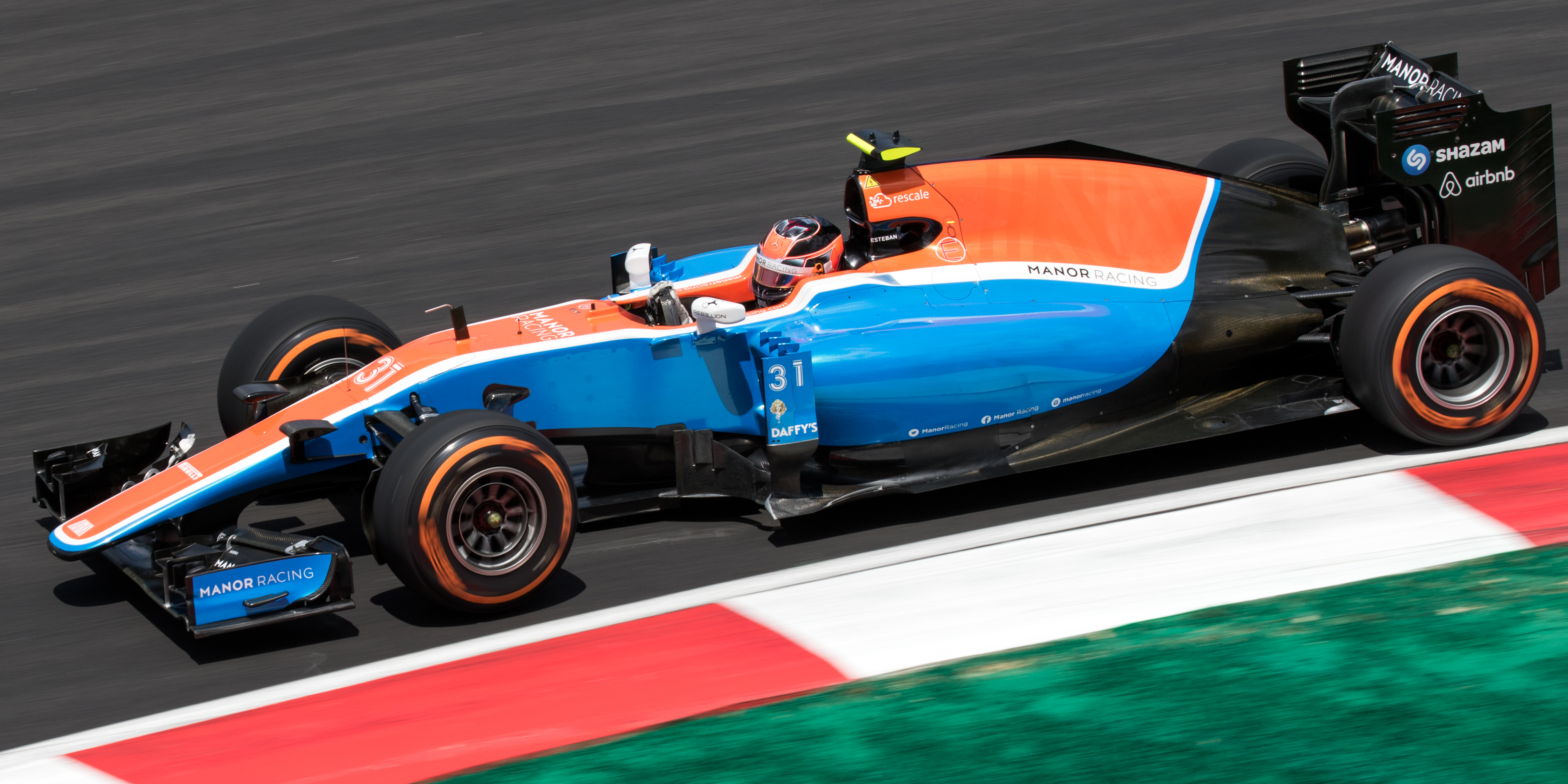 Formula One 2016 Rd.16 Malaysian GP: Esteban Ocon (MRT)